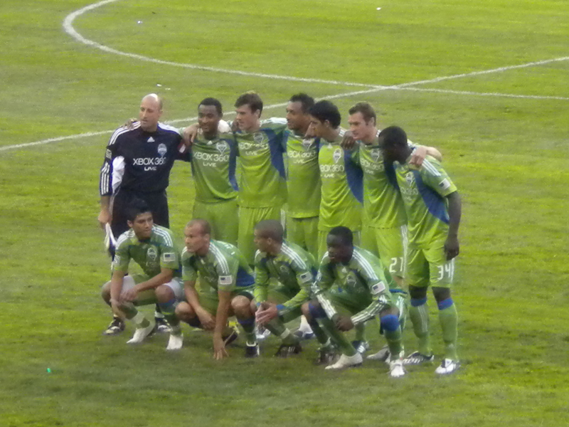 The Seattle Sounders FC starting lineup on August 5, 2009 against FC Barcelona.